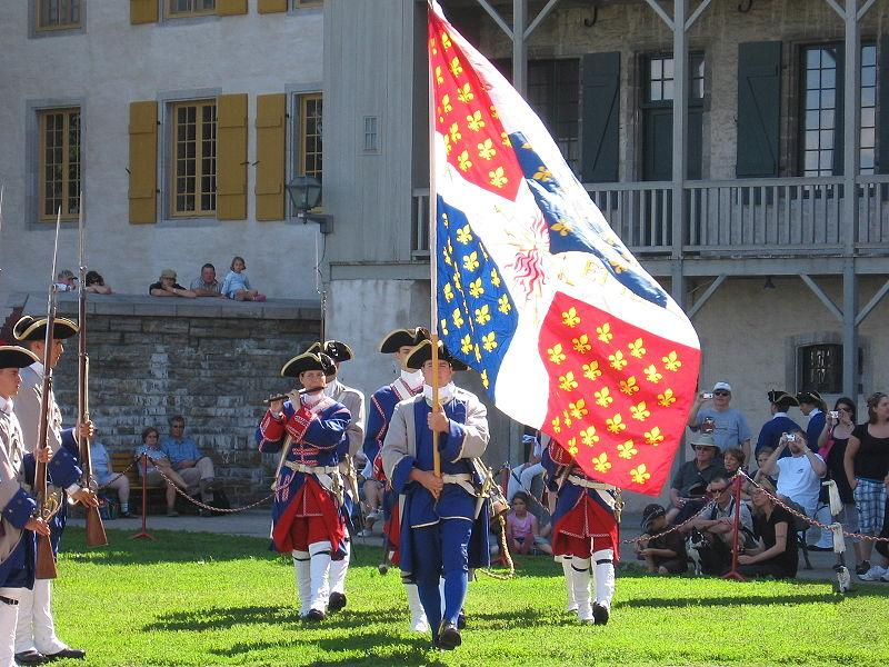 Compagnie Franche de la Marine